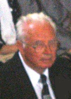 Václav Kefurt